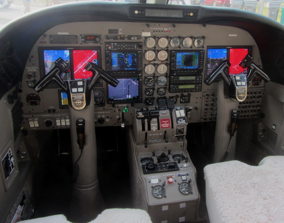 Updated Aero Commander Panel